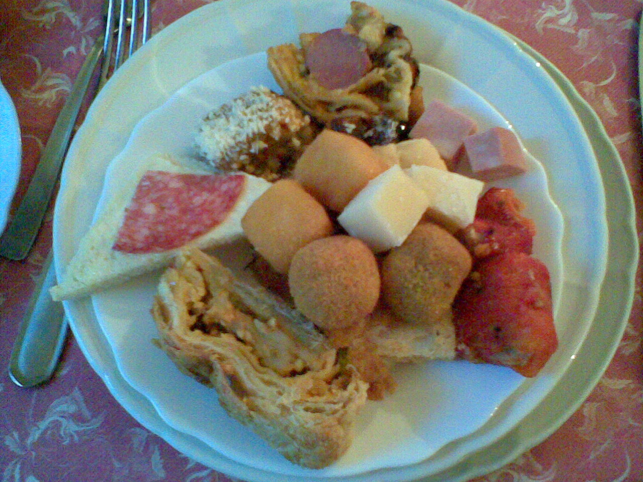 italian food